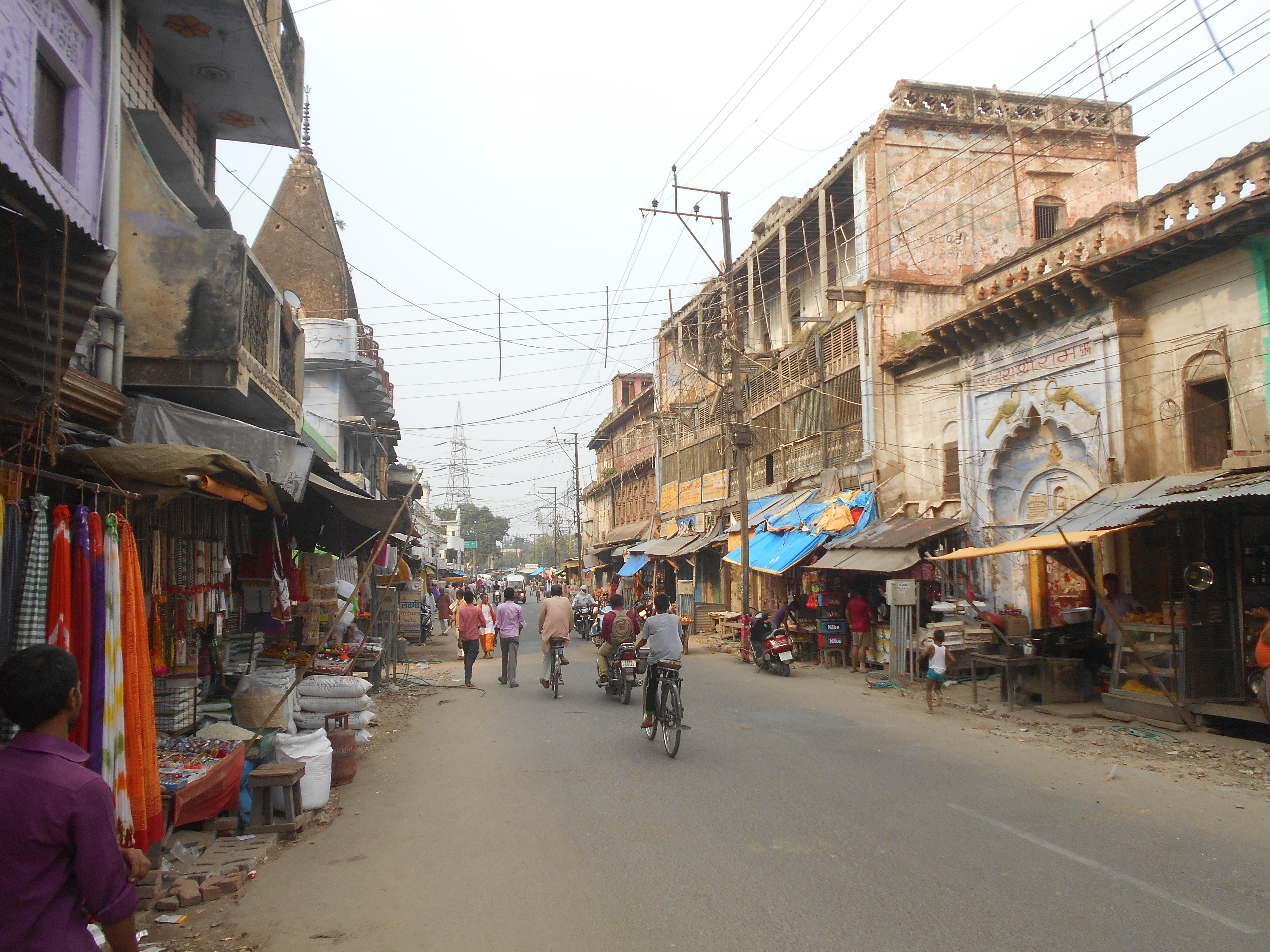 A Street at Ayodhya